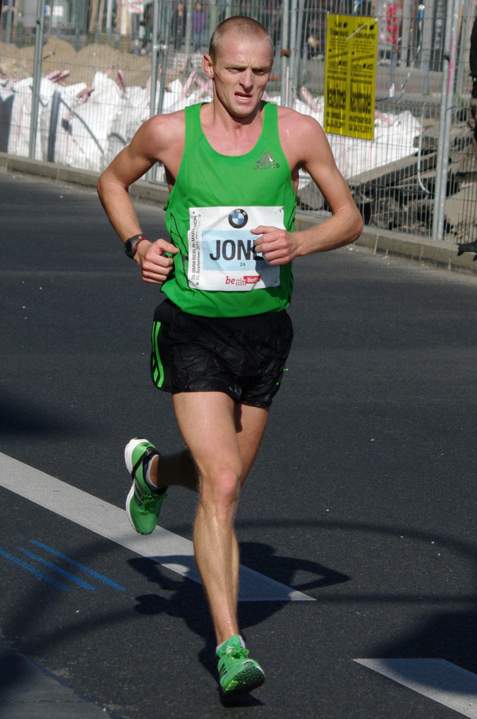 Andi Jones running the Berlin Marathon 2011. Here at Kilometer 34, Tauentzienstraße.